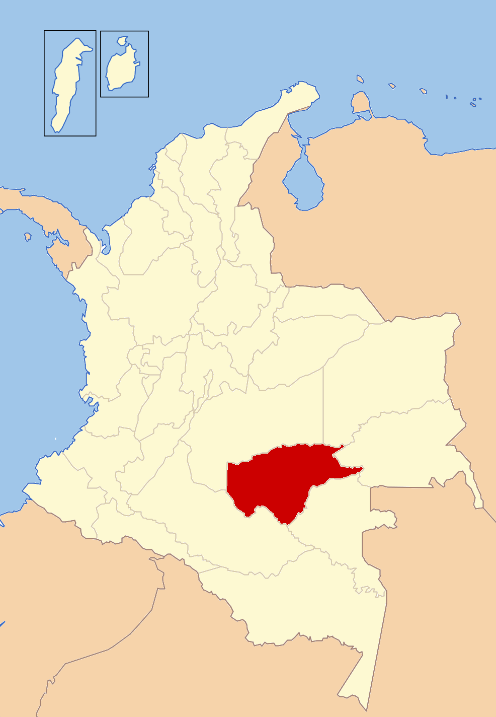 Image depicting map location of the Department of Guaviare, Colombia